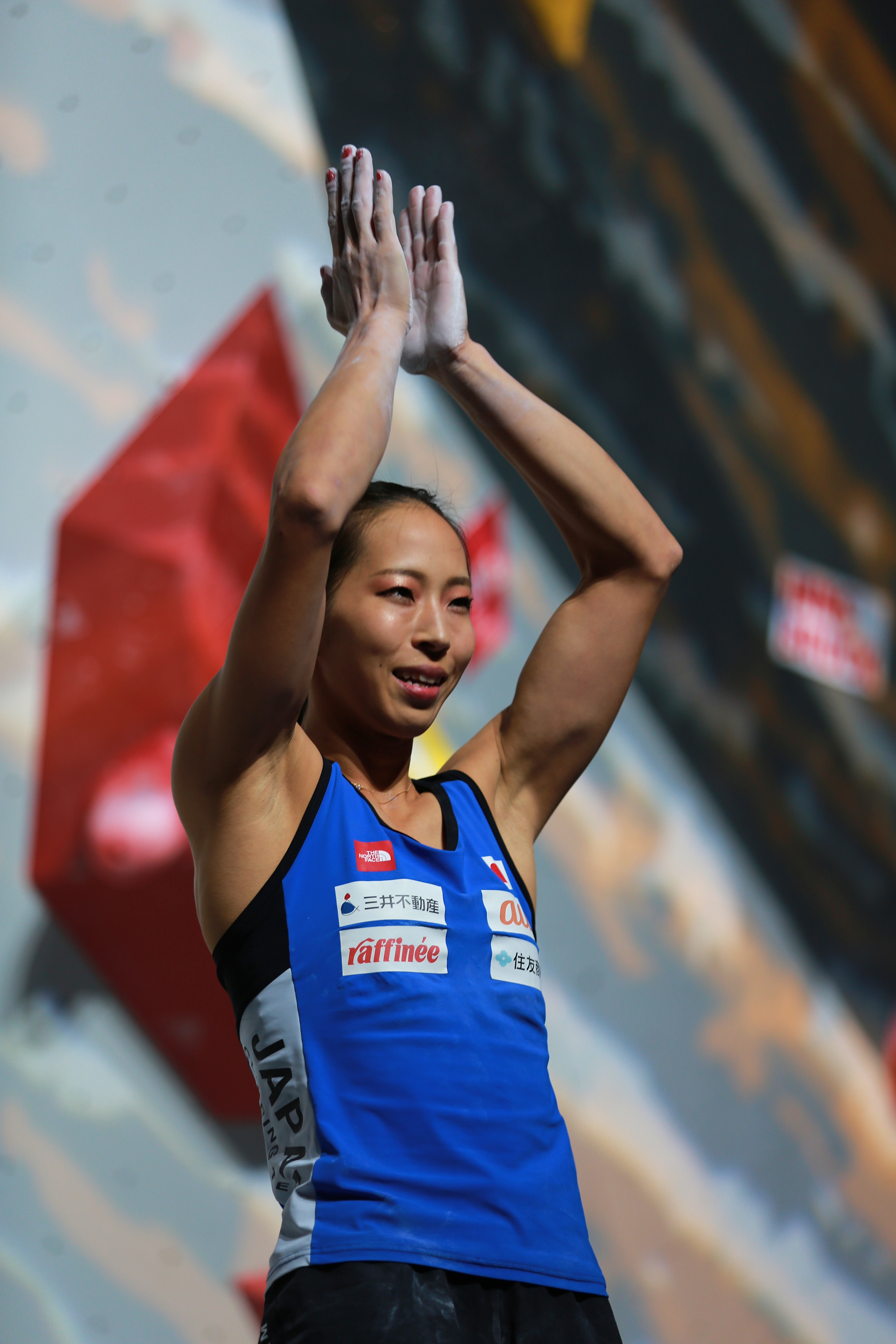 Climbing World Championships 2018 Boulder Final Noguchi